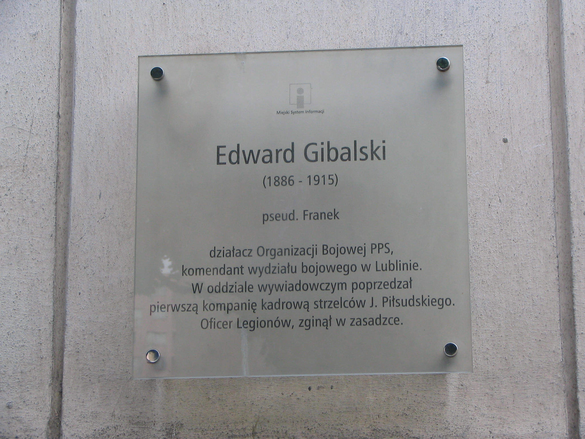 PL, Warsaw, Poland, Wola, Gibalskiego Street, City Information System